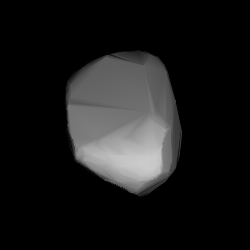 3D convex shape model of 1621 Druzhba, computed using light curve inversion techniques. J. Hanuš, J. Ďurech, M. Brož, B. D. Warner (June 2011). "A study of asteroid pole-latitude distribution based on an extended set of shape models derived by the lightcurve inversion method". Astronomy and Astrophysics 530: A134. ISSN 0004-6361. arXiv